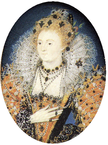 Elizabeth I of England